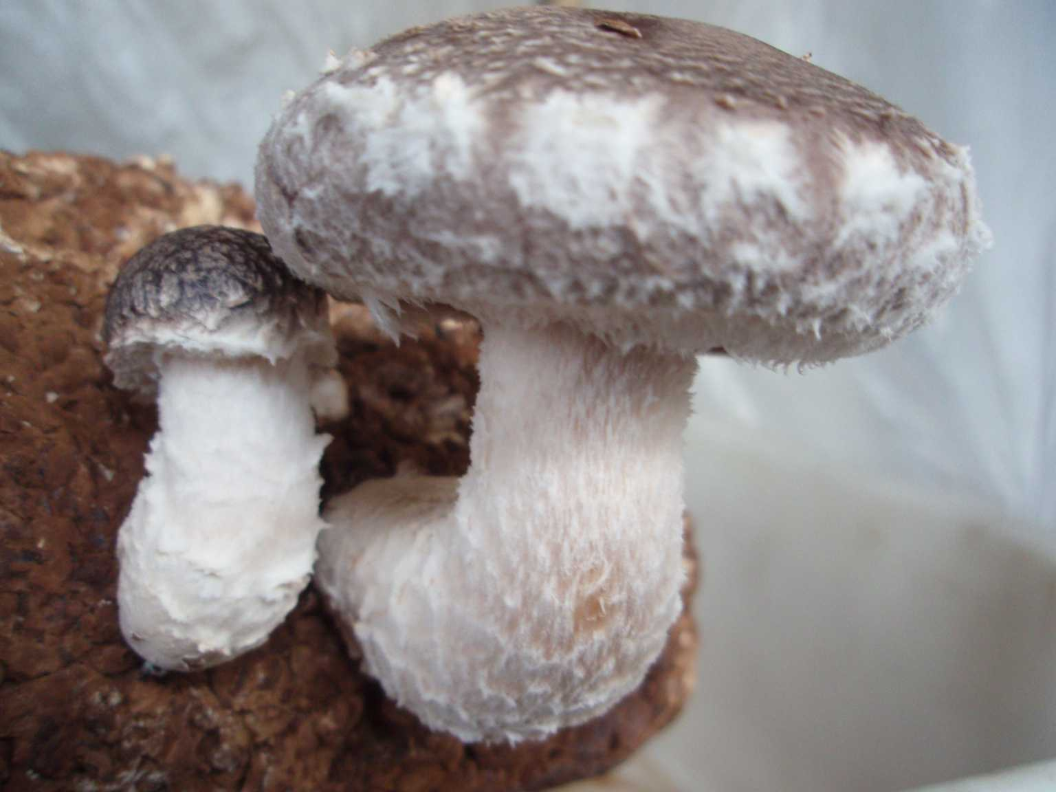 Shiitake mushrooms